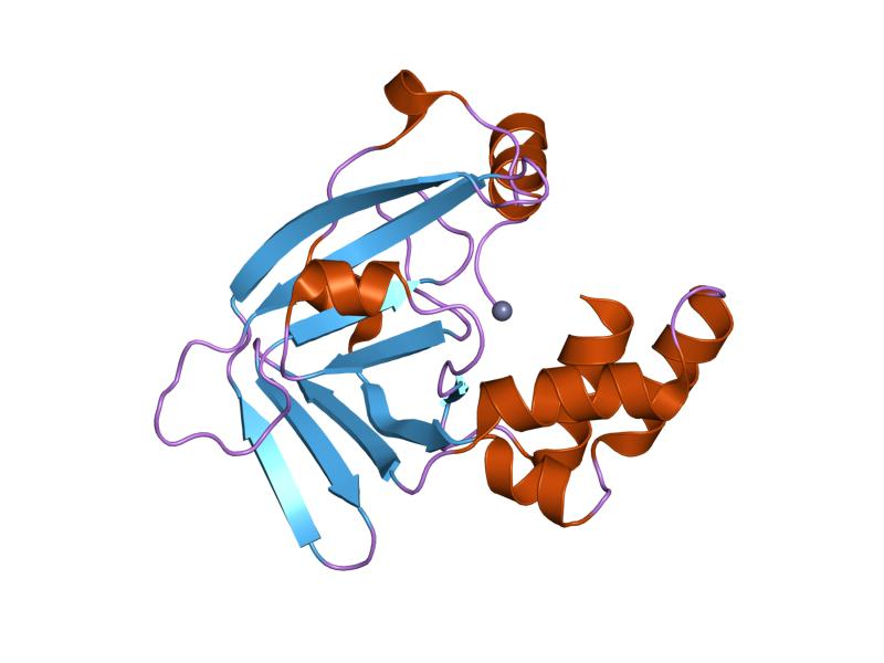 Cartoon representation of the molecular structure of protein registered with 1txl code.